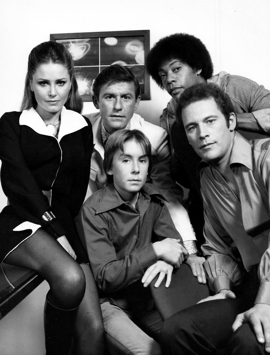 Cast of the very short-lived science fiction program The Fantastic Journey. Back row, L-R: Katie Saylor, Roddy McDowall and Carl Franklin. Front: Ike Eisenmann and Jared Martin